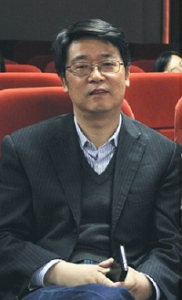 my photo